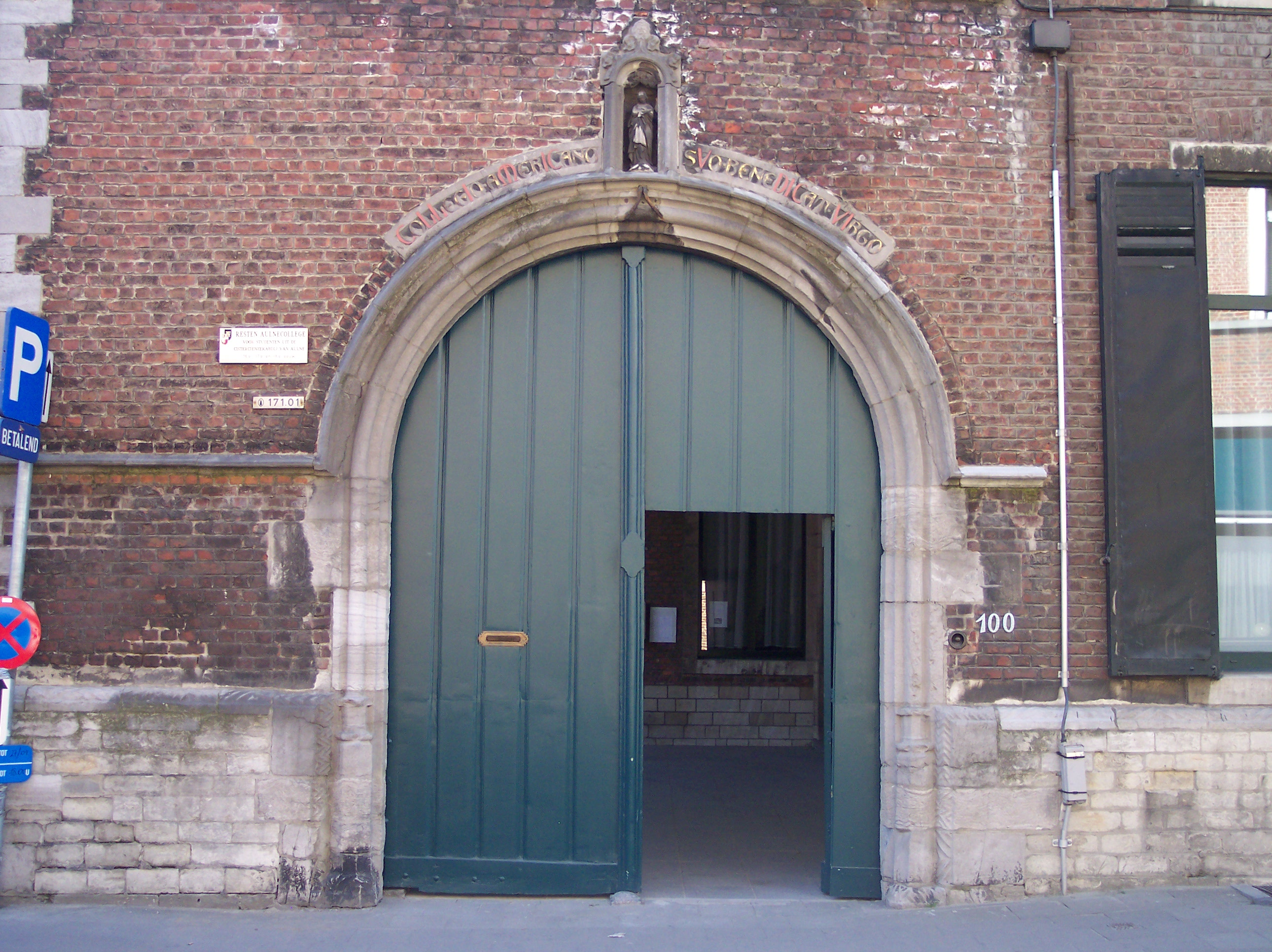 The front door of the American College and the Aulne archway.